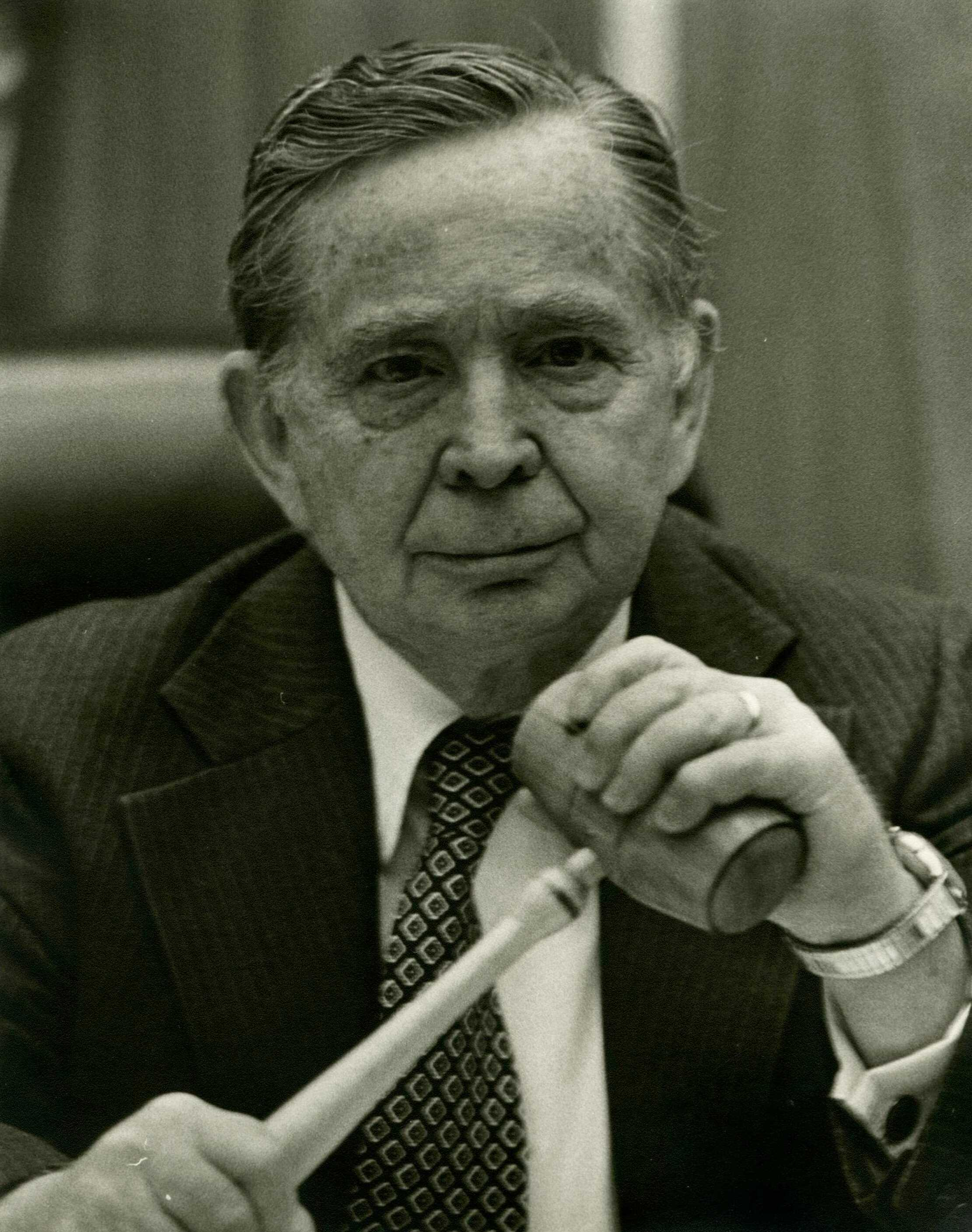 Profile of Carl Albert, smiling.